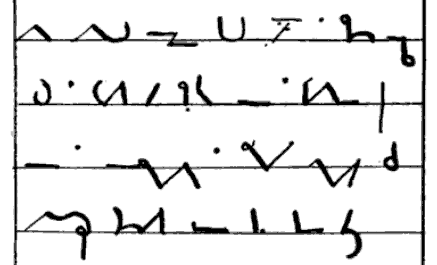 A specimen of Gurney shorthand